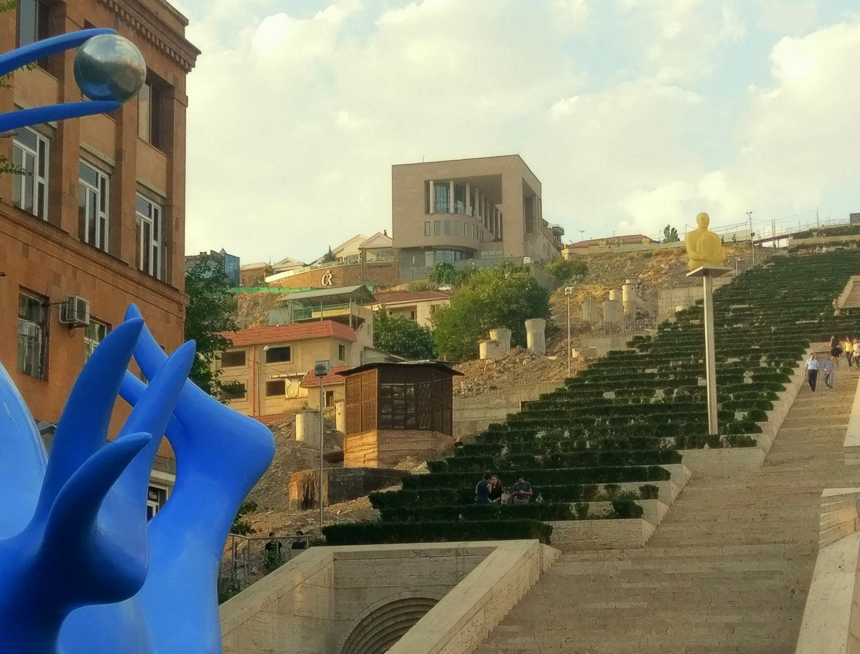 Charles Aznavour Museum Yerevan Cascade